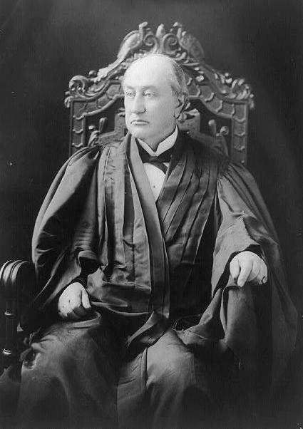 David Josiah Brewer (1837-1910).